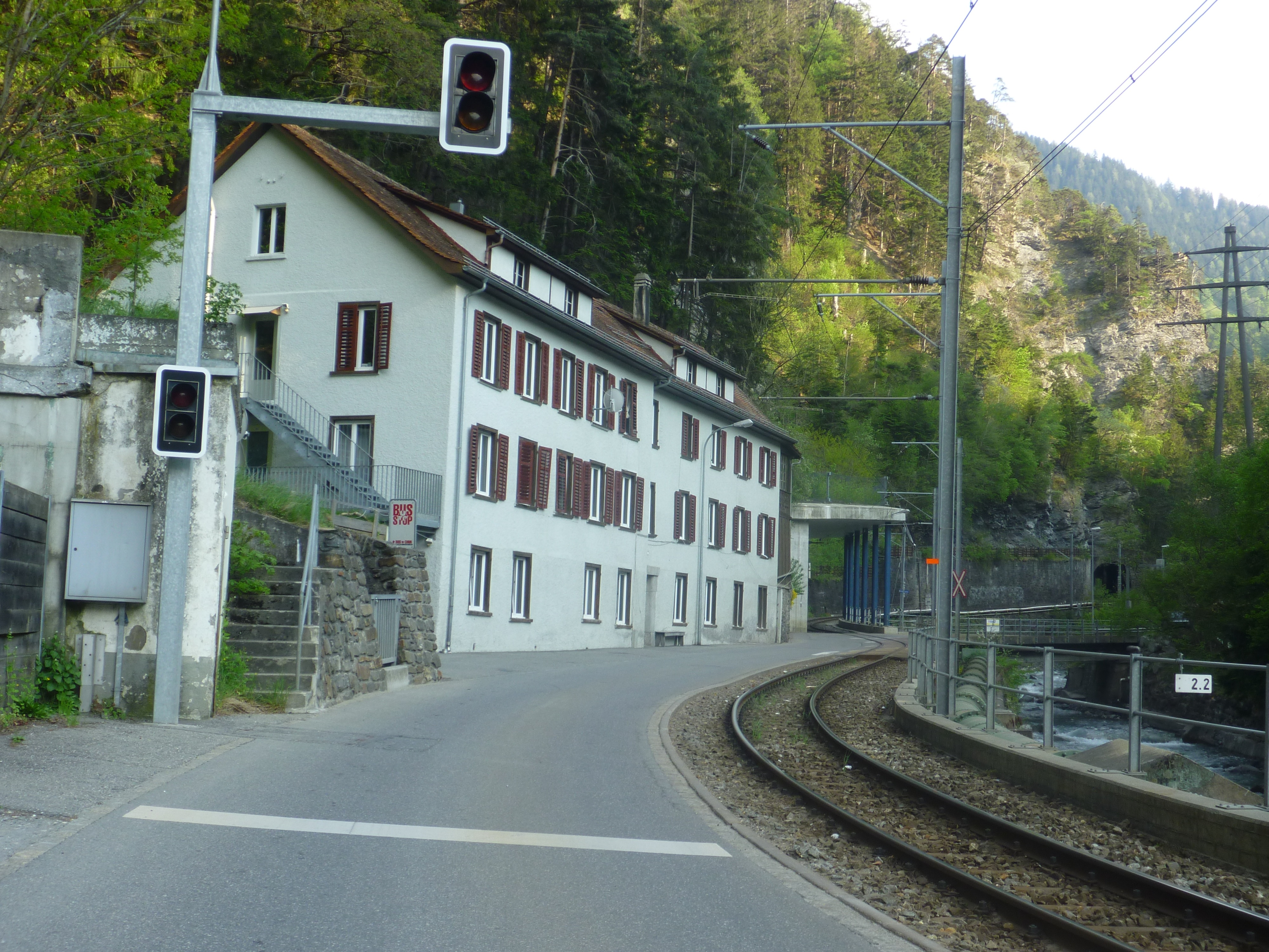 Former train stop "Sassal", Chur-Arosa railway